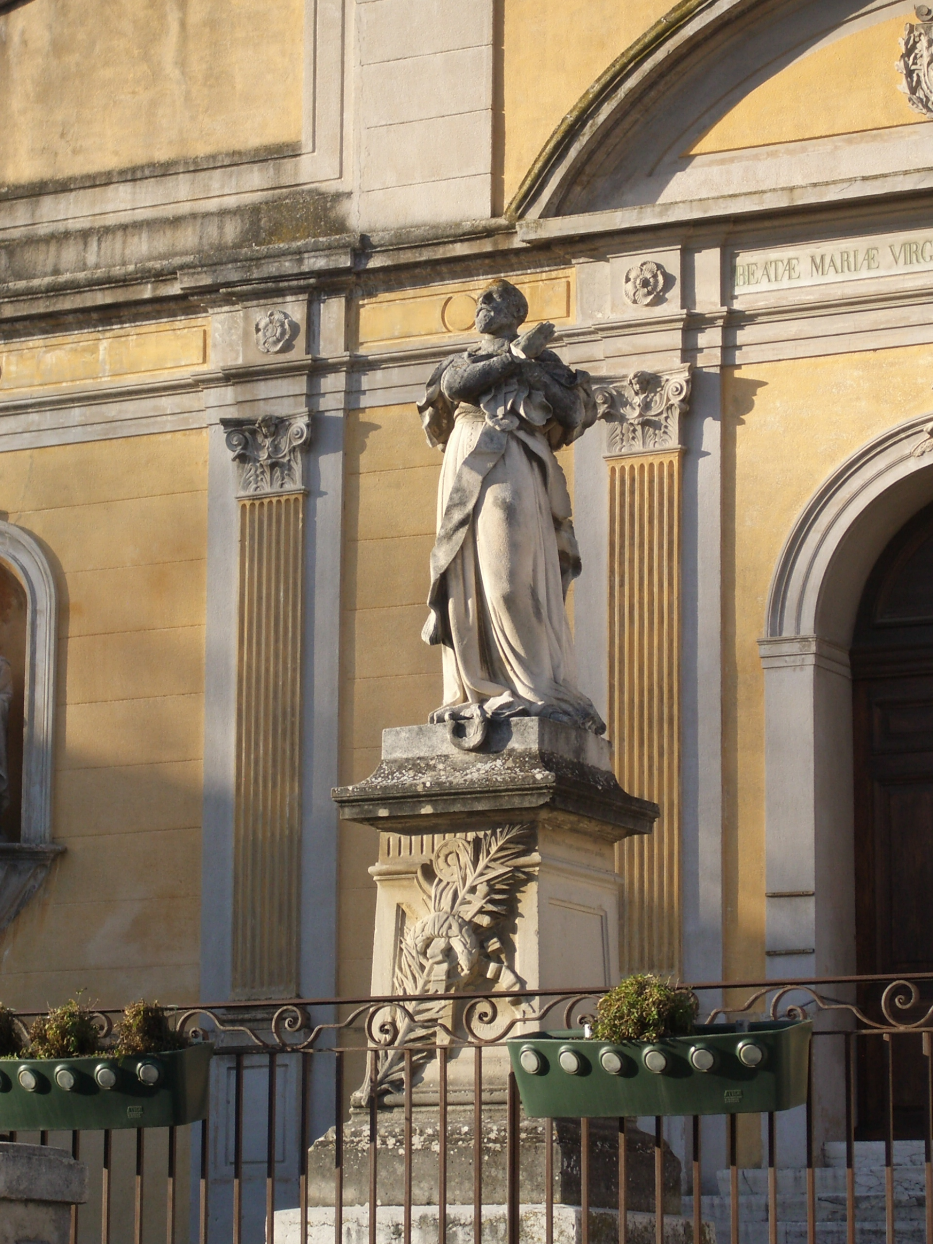 Saint Laurent Imbert, in front of the church of Calas (France)